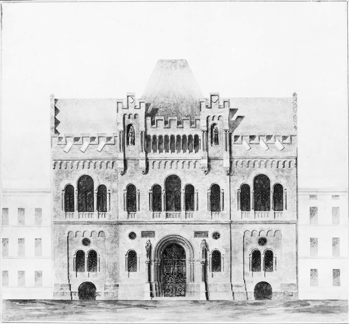 Trankgasse - Kölner Hof (1853), Lithografie von Bernhard Wilhelm Harperath